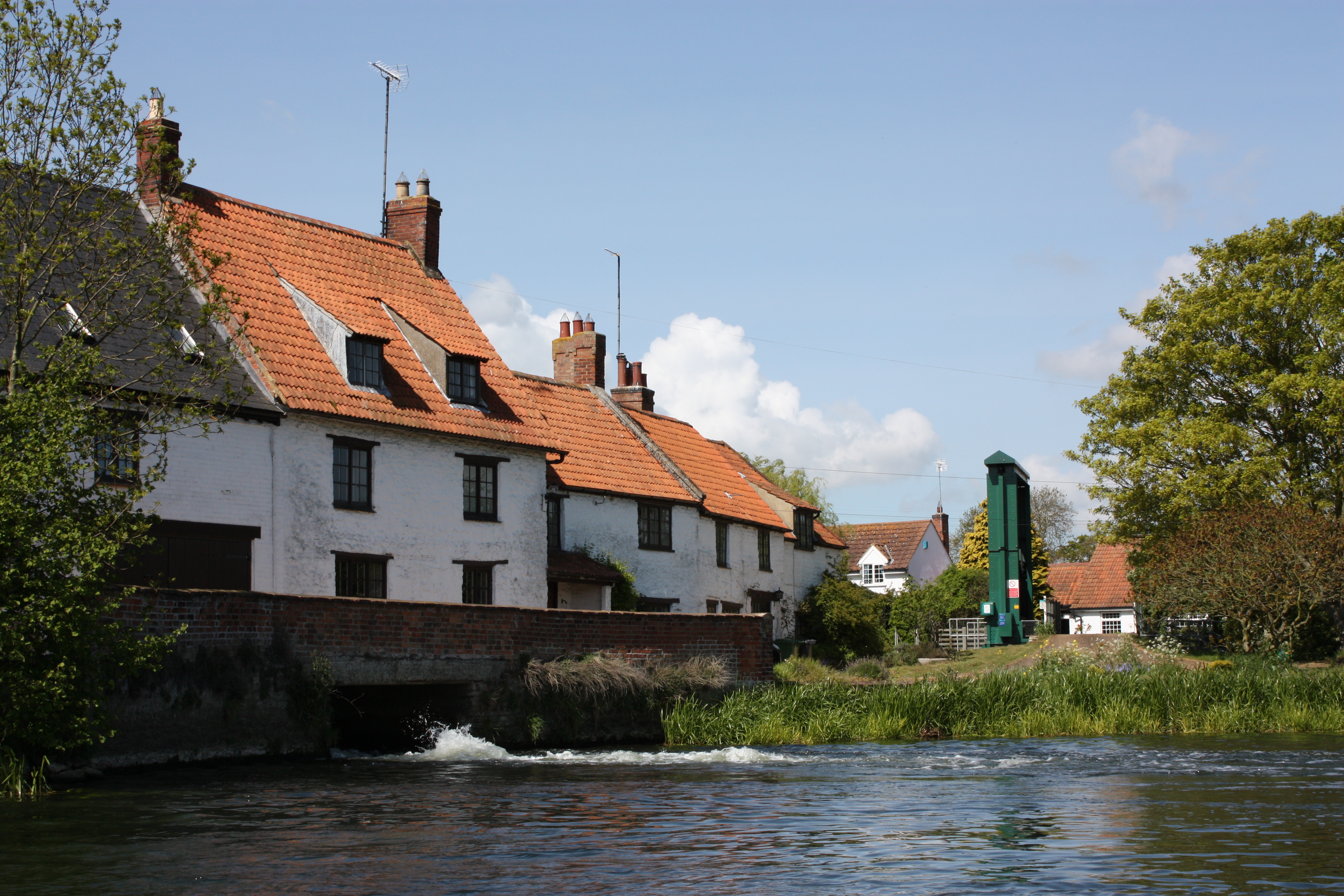 The Mill at Hardwater crossing, Great Doddington, Northants